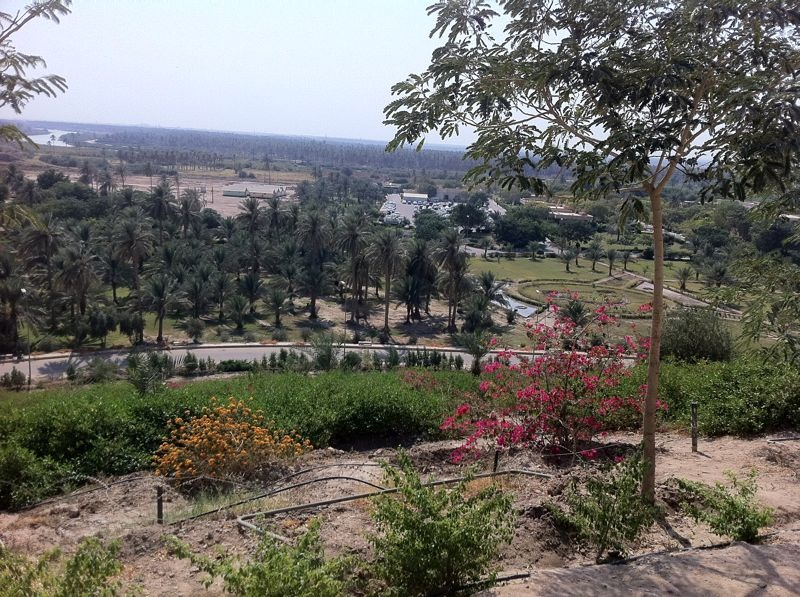 Palm trees and orchards near Babylon city (Babil) in Iraq